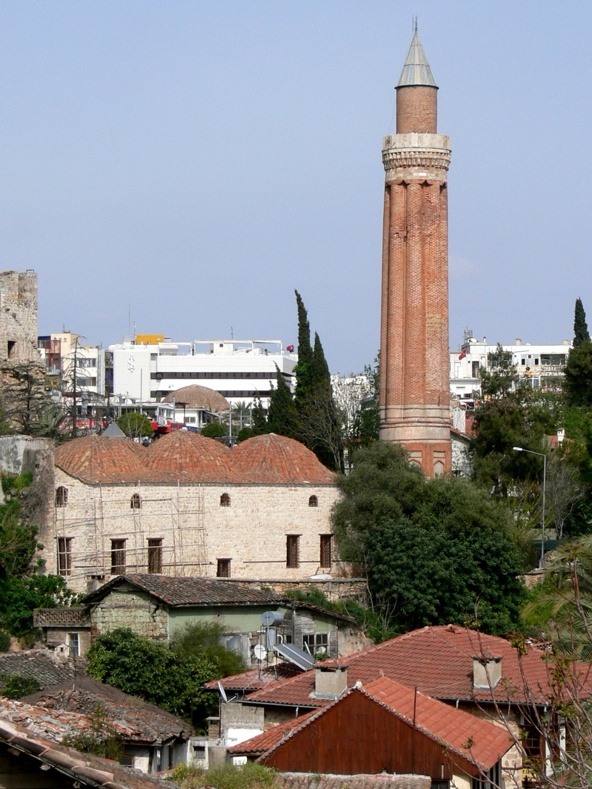 Antalya ( Turkey ). Alaeddin mosque with Yivli minaret ( 1238 )